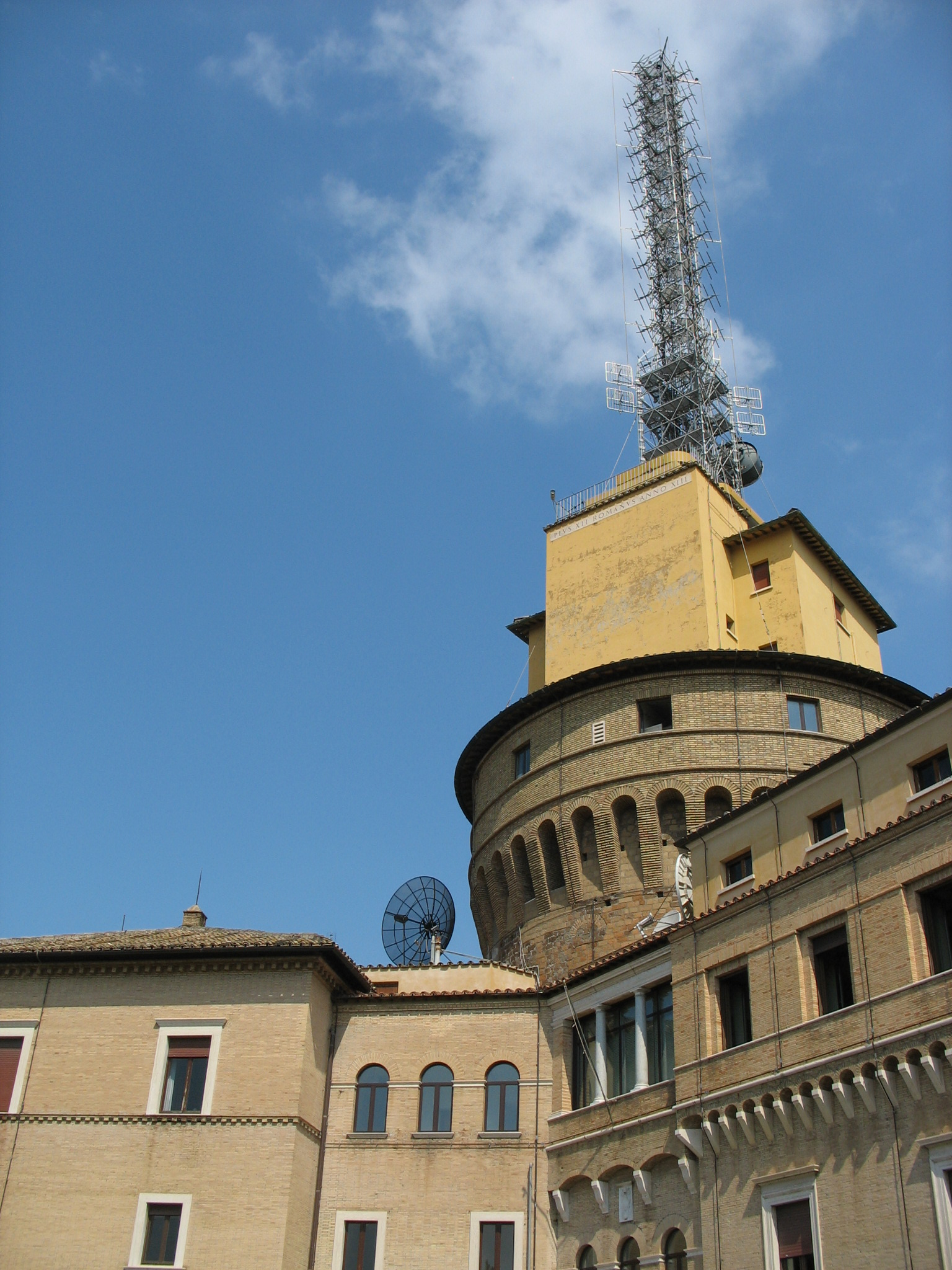 Radio Vaticana in 2009.